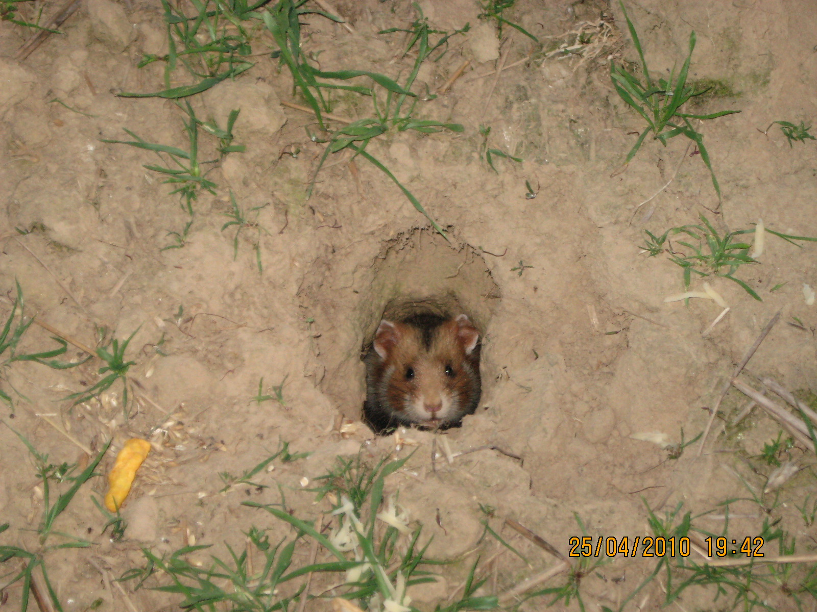 Cricetus cricetus - Lubin area; Poland